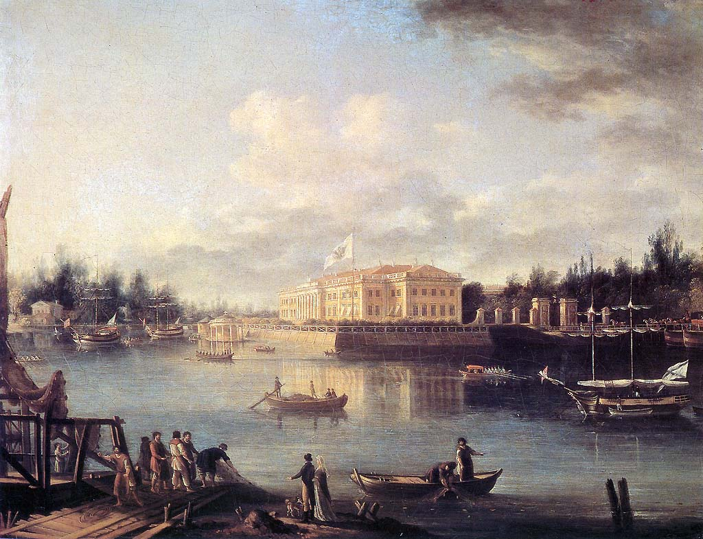 Semyon Shchedrin. View of Kamenny Island and Palace in Saint Petersburg (1803).